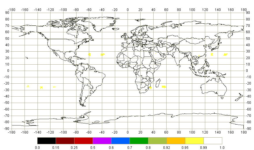 Integral availability of GLONASS navigation (PDOP≤6) during the past 24 hour period (mask angle ≥5°)